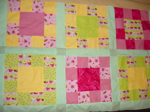 Patchwork quilt